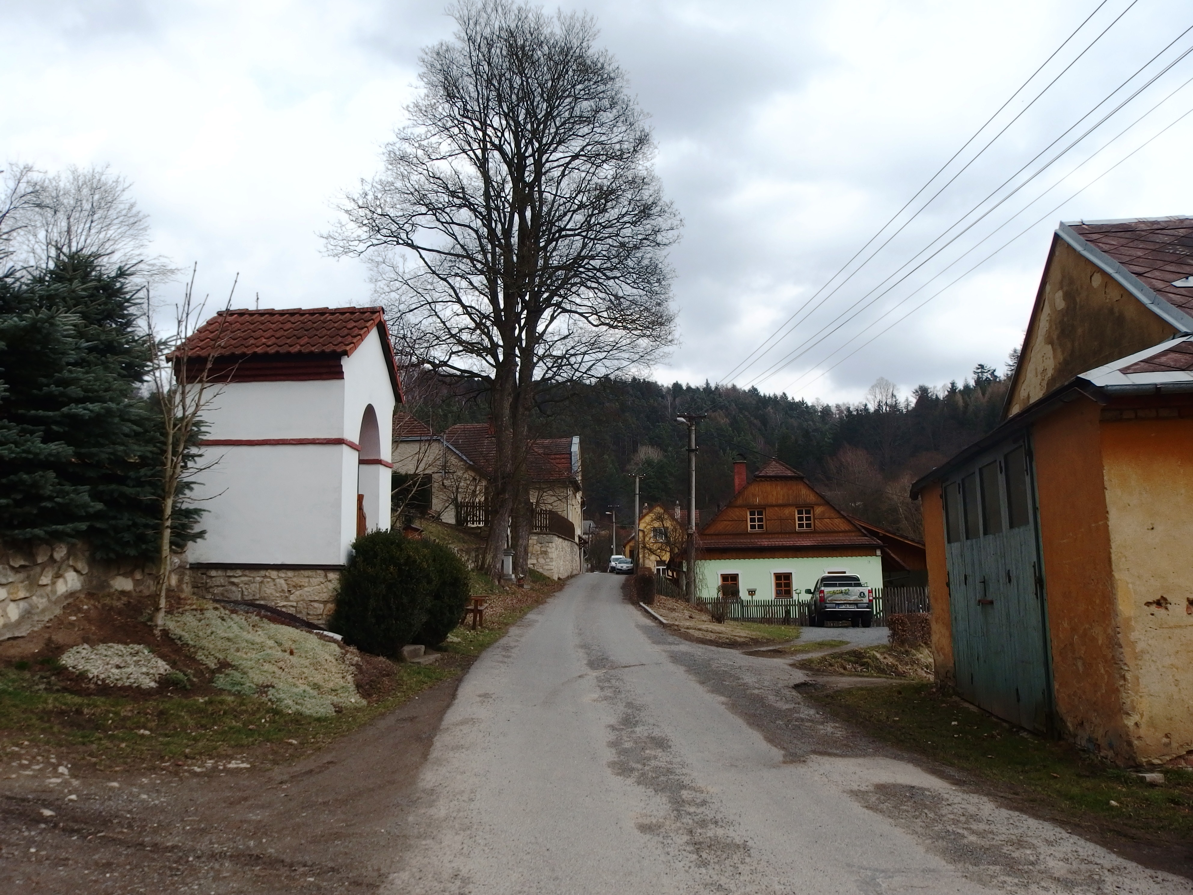 Brněnec, Svitavy District, Czech Republic, part Chrastová Lhota.